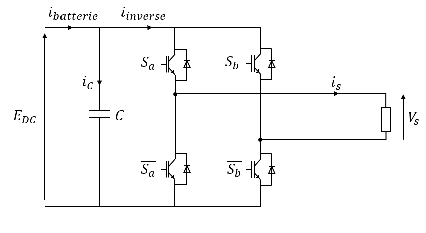 Single phase inverter